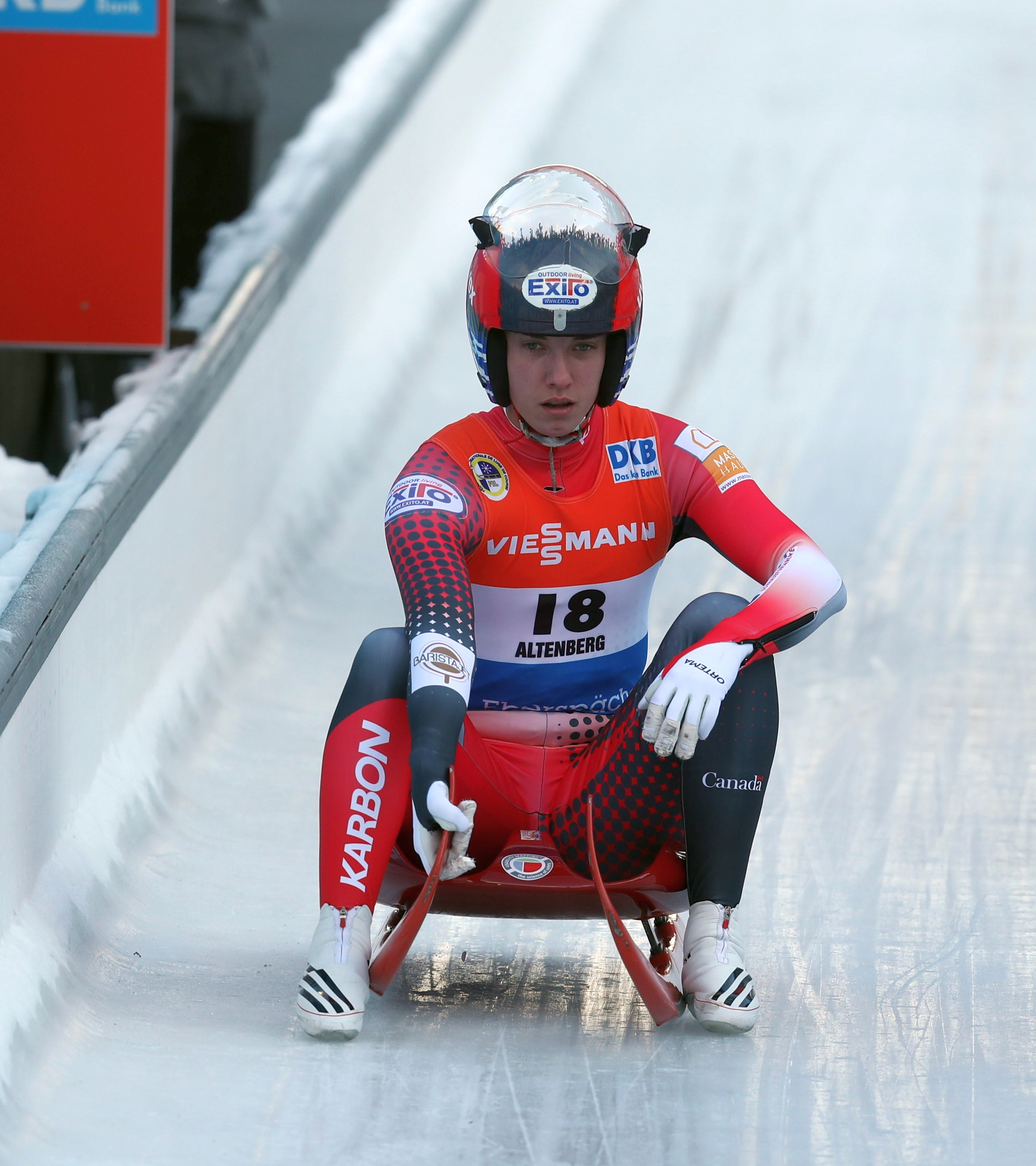 Luge World Cup Women 2017/18 in Altenberg: Kimberley McRae